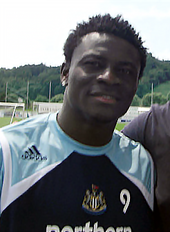 Nigerian footballer Obafemi Martins